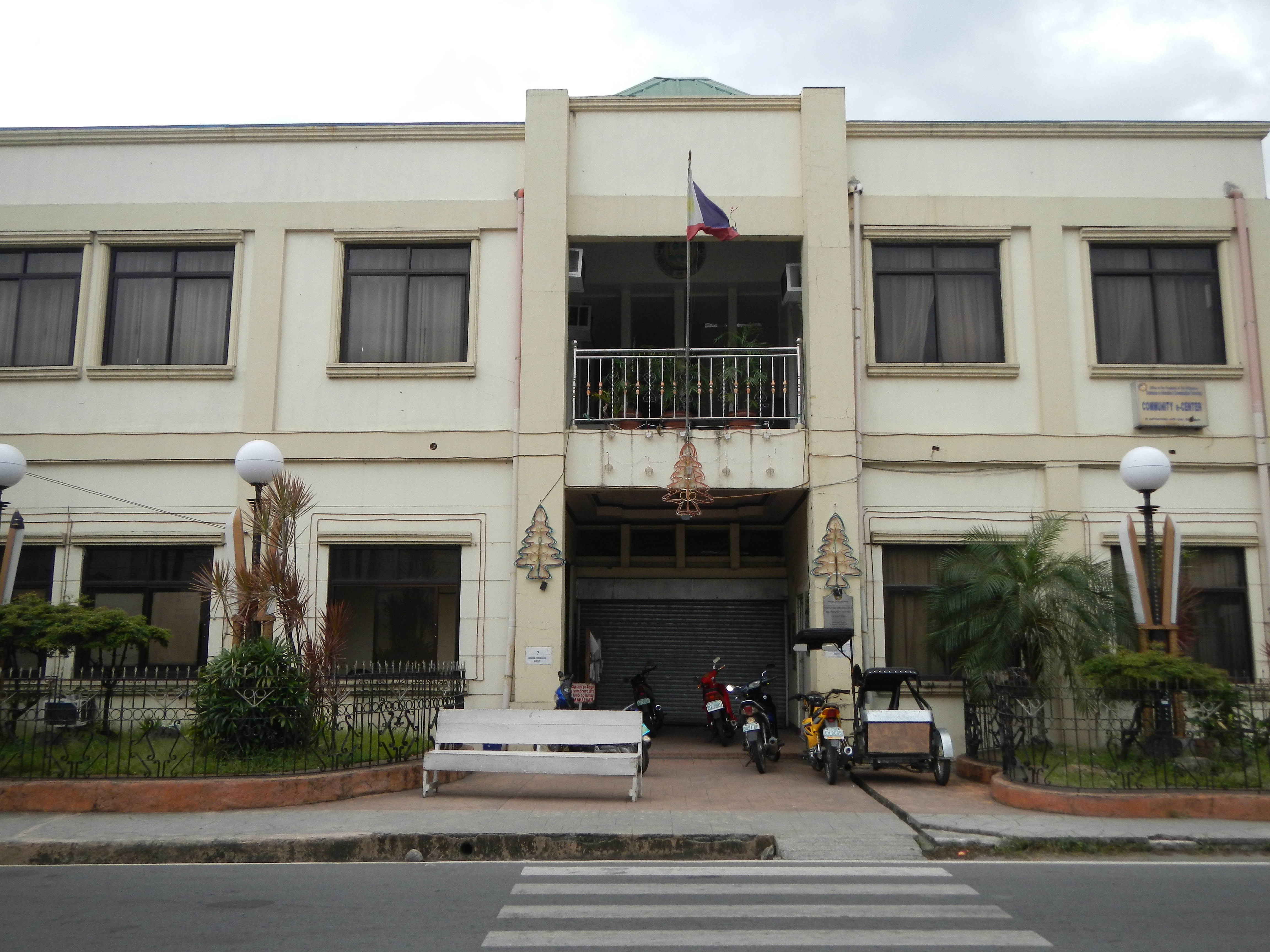 Upload Wizard photos of - this is the town hall of Lian, Batangas[1]